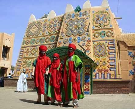 The Palace of the Emir of Bauchi. The building as we were told is as old as 230years. The color pop brings happiness to the soul This is an image from Nigeria